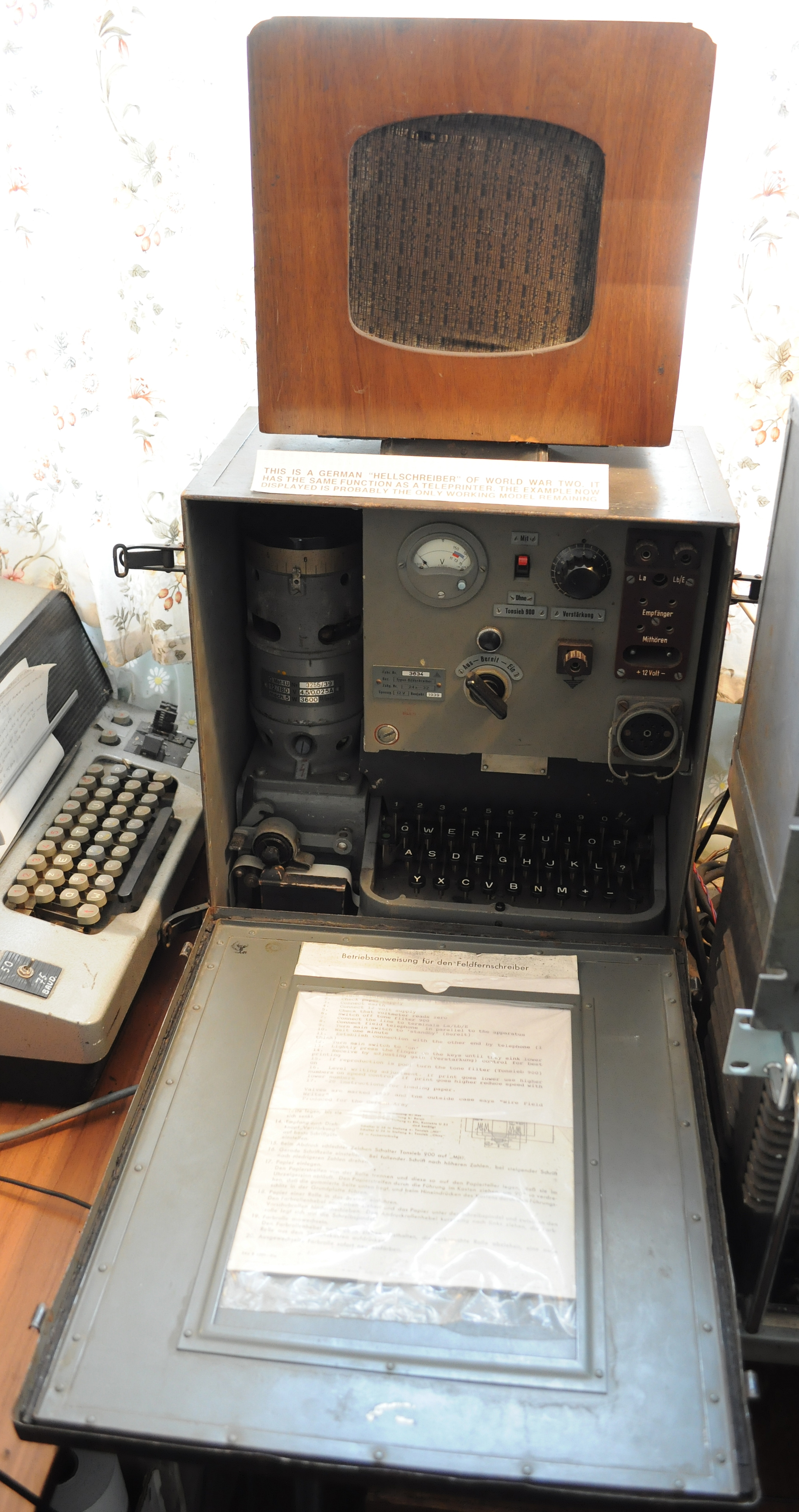 Image of a German Hellschreiber remote printing machine taken in Bletchley Park Museum, United Kingdom, with caption: "German 'Hellschreiber' machine of World War Two. It has the same function as a teleprinter. The example now displayed is probably the only working model remaining."